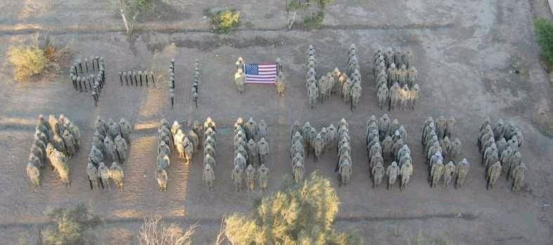 "The proud warriors of Baker Company wanted to do something to pay tribute To our fallen comrades. So since we are part of the only Marine Infantry Battalion left in Iraq the one way that we could think of doing that is By taking a picture of Baker Company saying the way we feel. It would be awesome if you could find a way to share this with our fellow countrymen. I was wondering if there was any way to get this into your papers to let the world know that "WE HAVE NOT FORGOTTEN" and are proud to serve our country." Semper Fi 1stSgt Dave Jobe